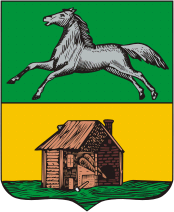 Coat of arms of Novokuznetsk, Kemerovo Oblast (1804).